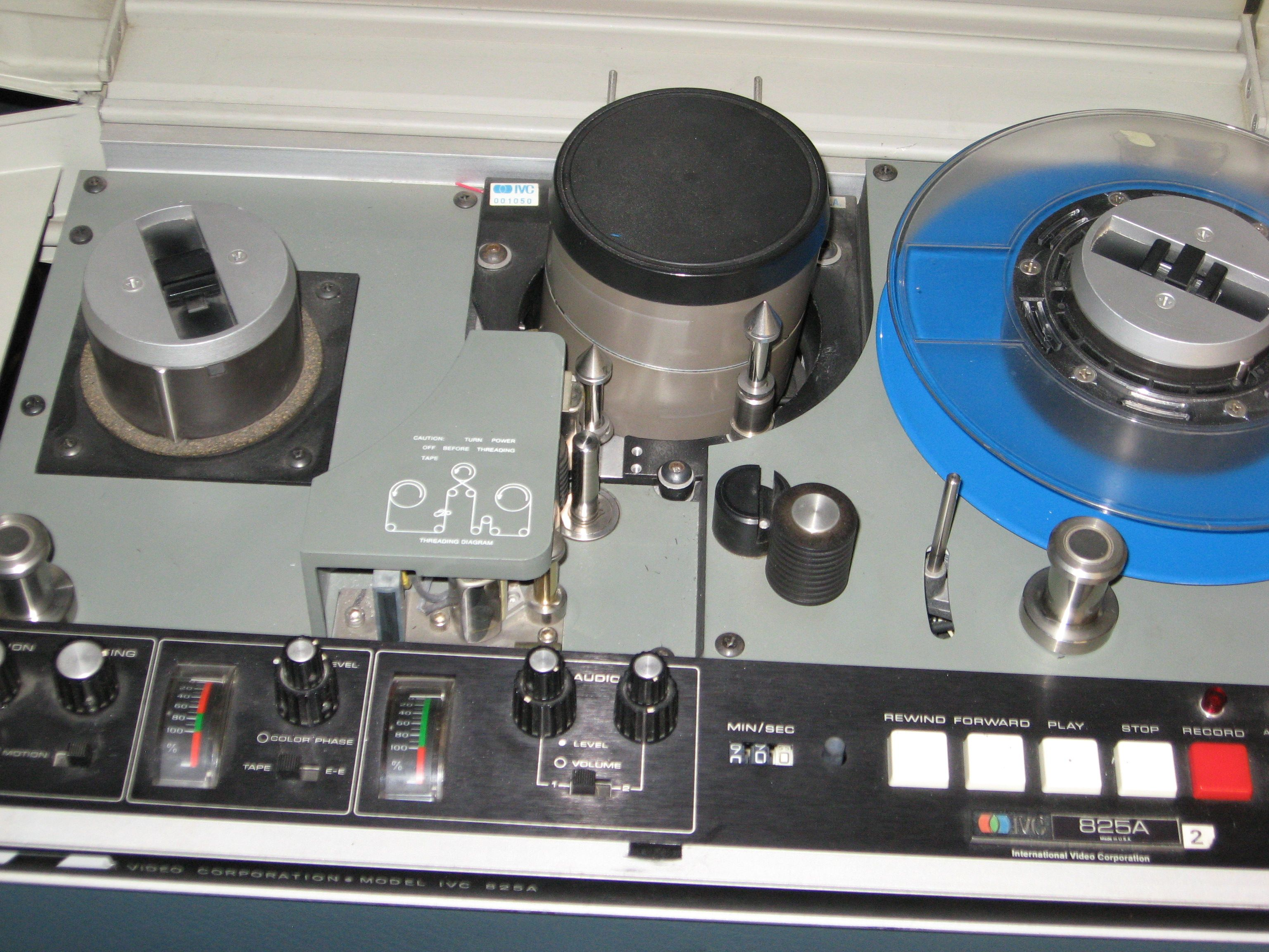 Telecineguy IVC 825A at DC Video, Burbank, Ca USA